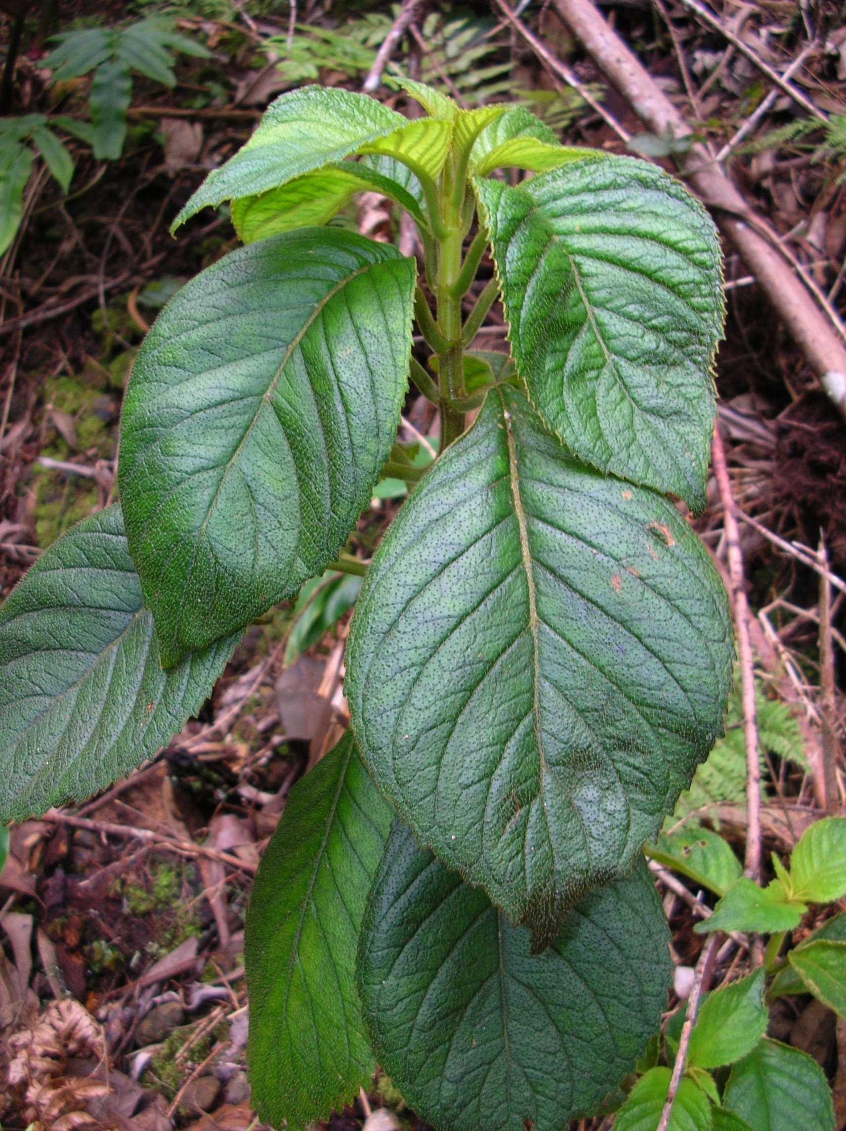 Cyrtandra sp. (habit). Location: Maui, Makawao Forest Reserve